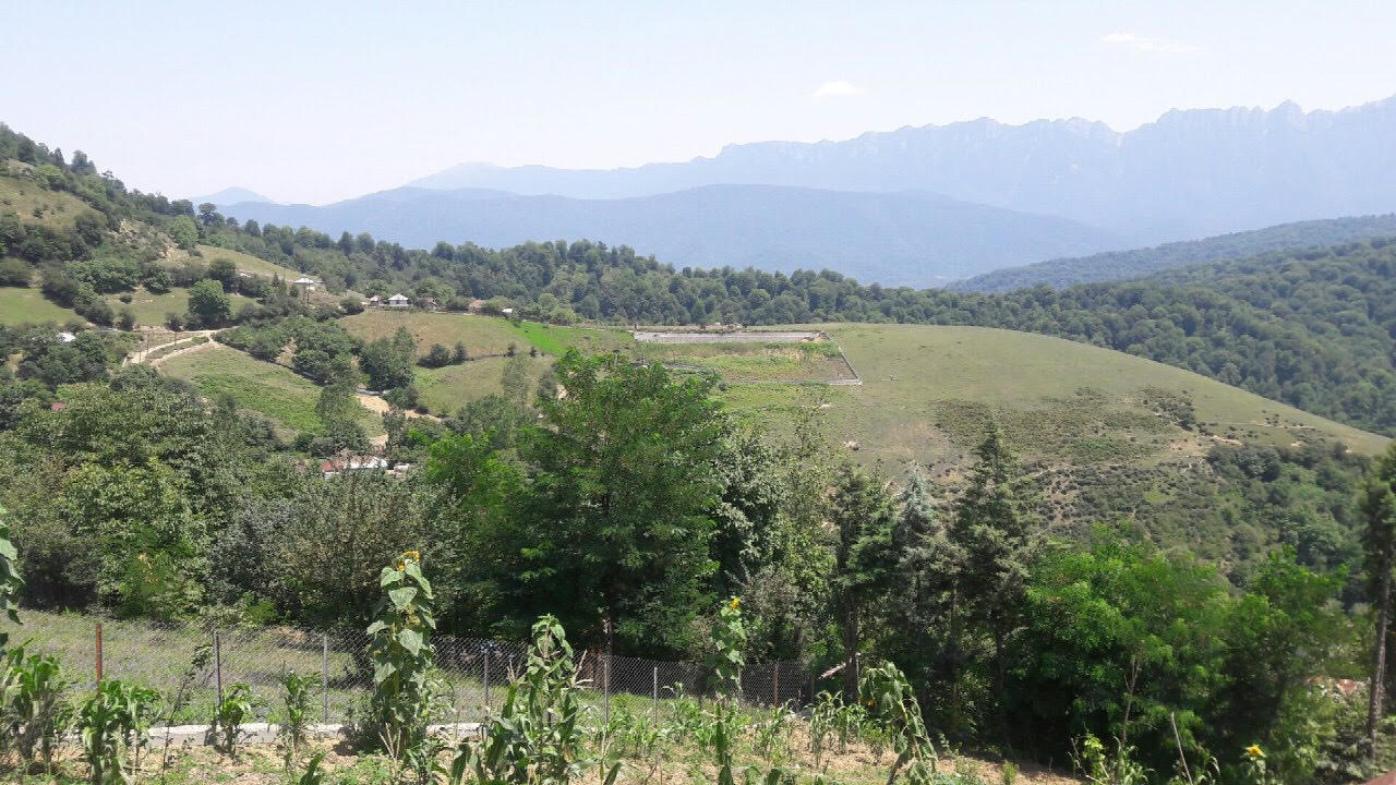 Beautiful view of Alborz Mountain Range from Valik Chal